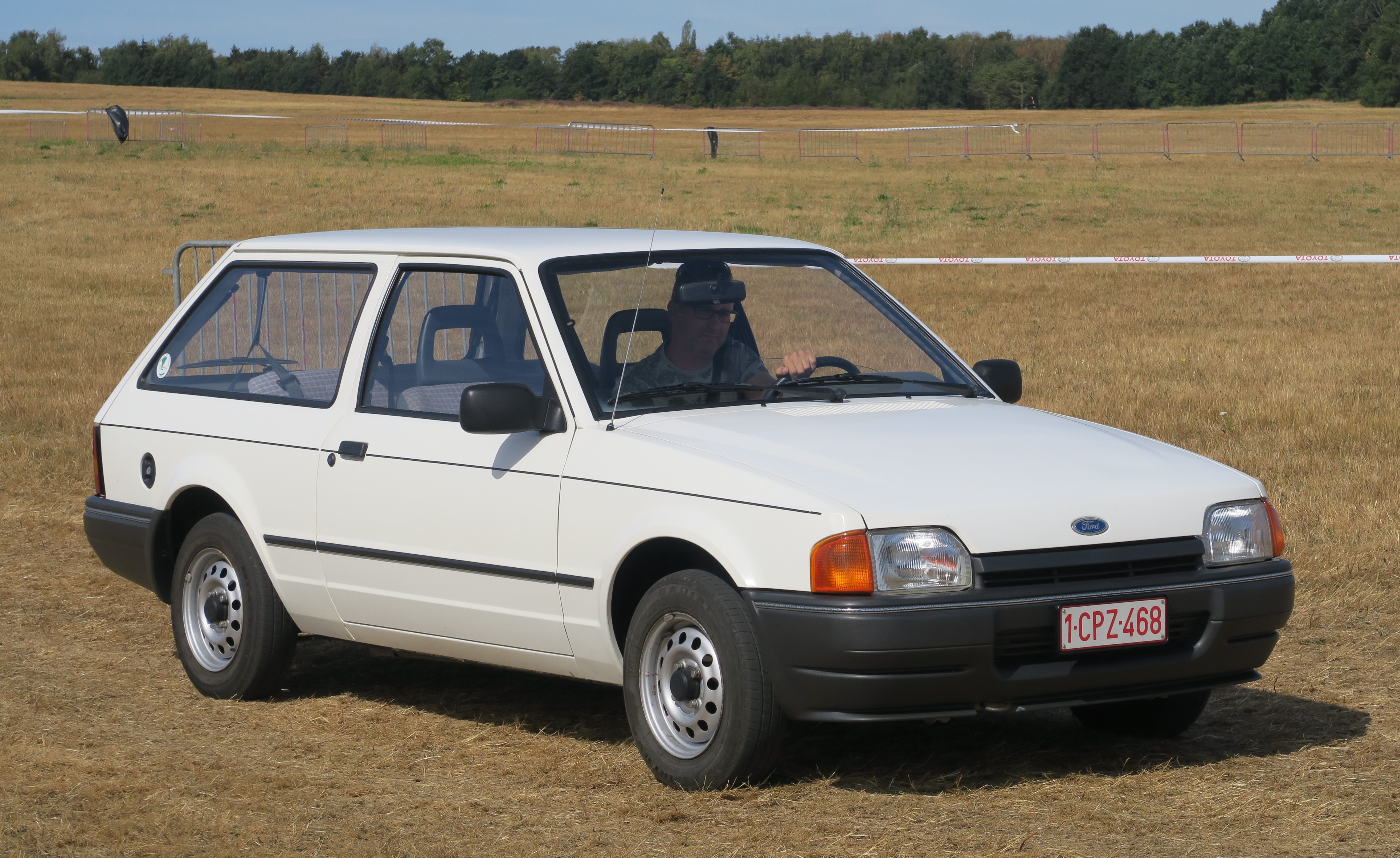 Ford Escort MkIV Estate